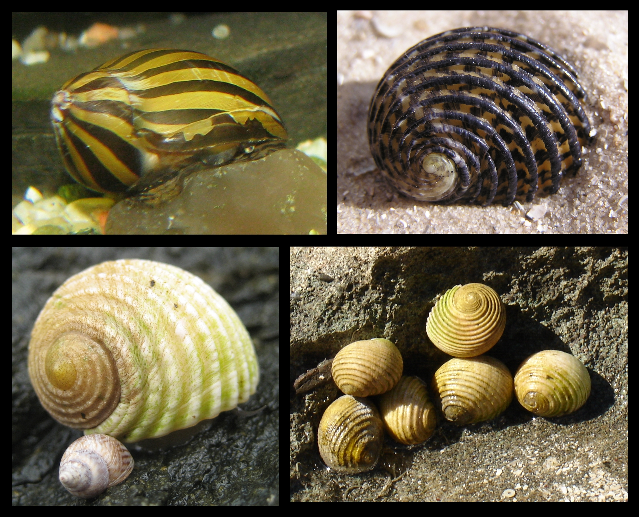 Nerita plicata on Mahe island on the Seychelles